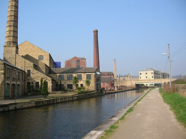 Canal side, Shipley The Leeds Liverpool canal through Shipley. Ahead following the canal you come to Saltaire and the Hockney gallery in Salts Mill.